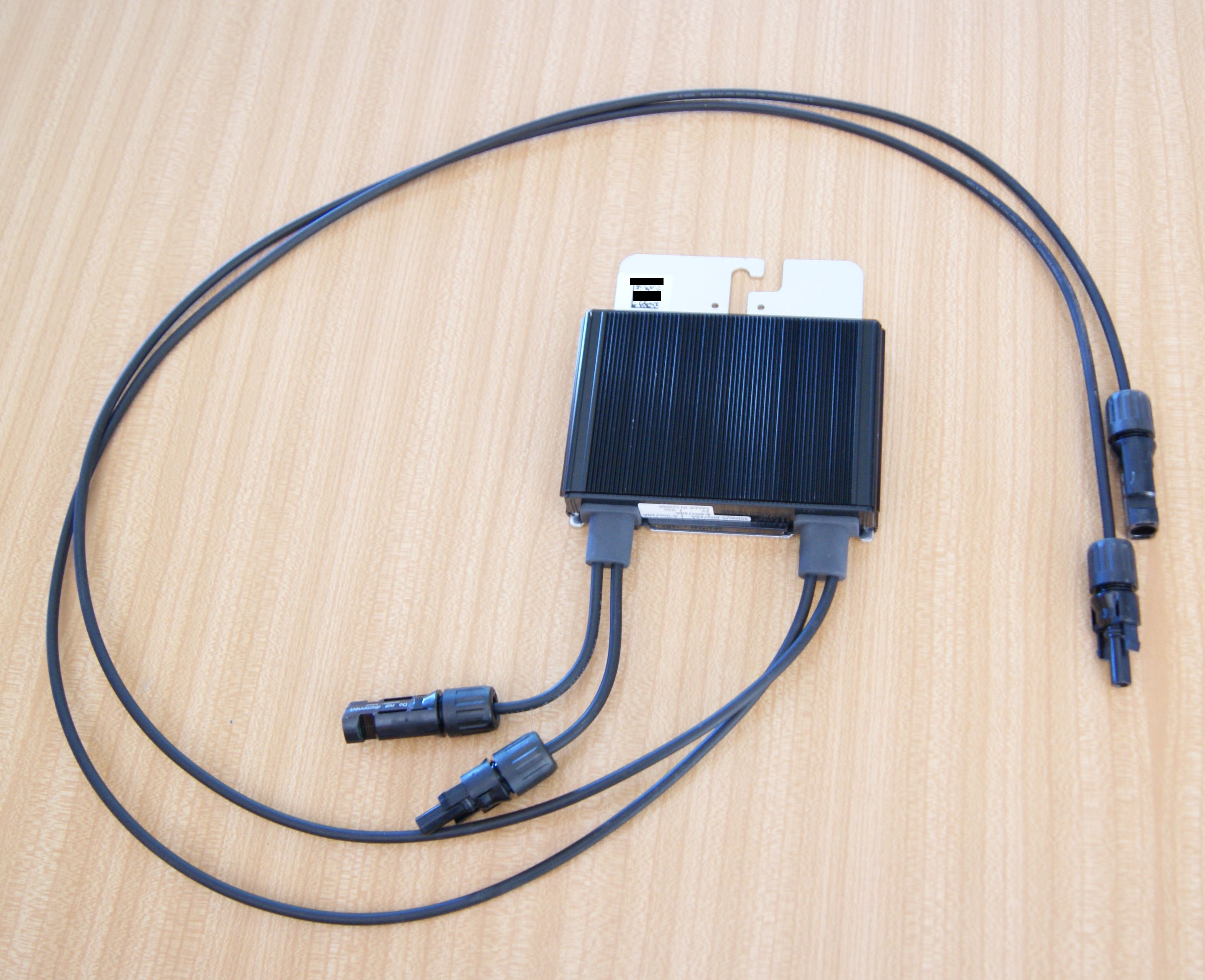 SolarEdge power optimizer 350W. The long wires are used to connect the SolarEdge power optimizers with each other (in series). On the short wires the photovoltaic module is connected.